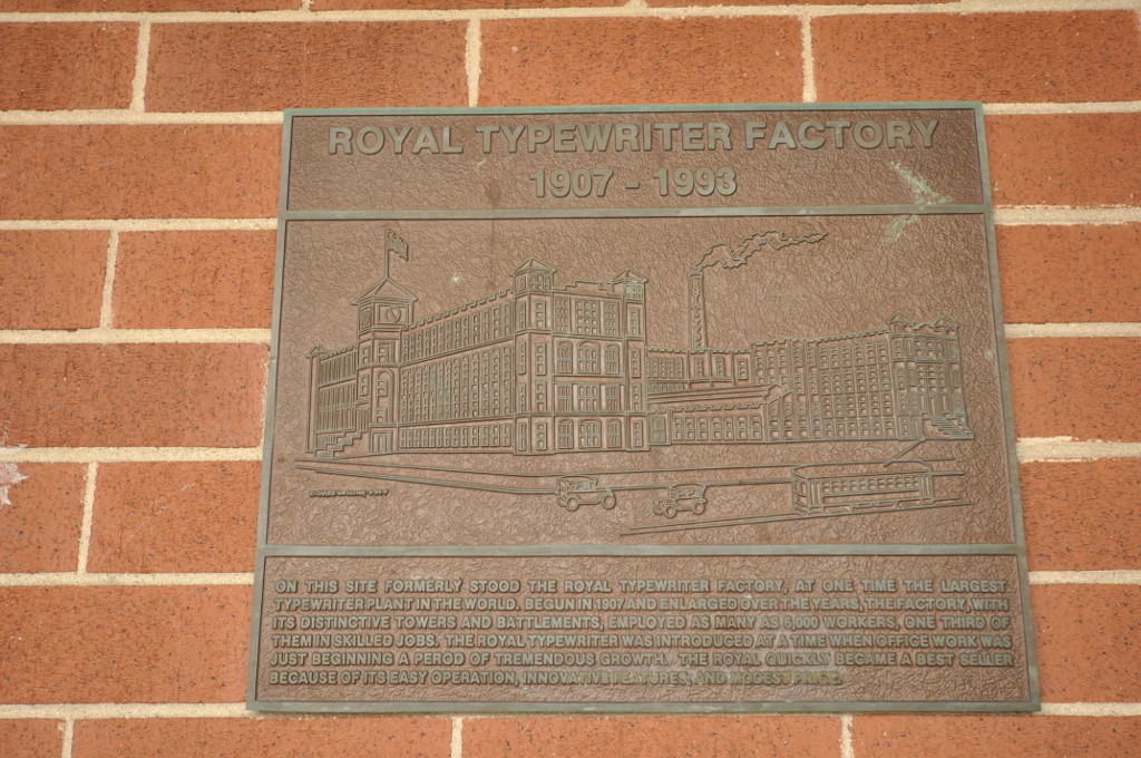 Plaque commemorating the site of the Royal Typewriter Company Building in Hartford, Connecticut. Located at the Stop and Shop on New Park Avenue.